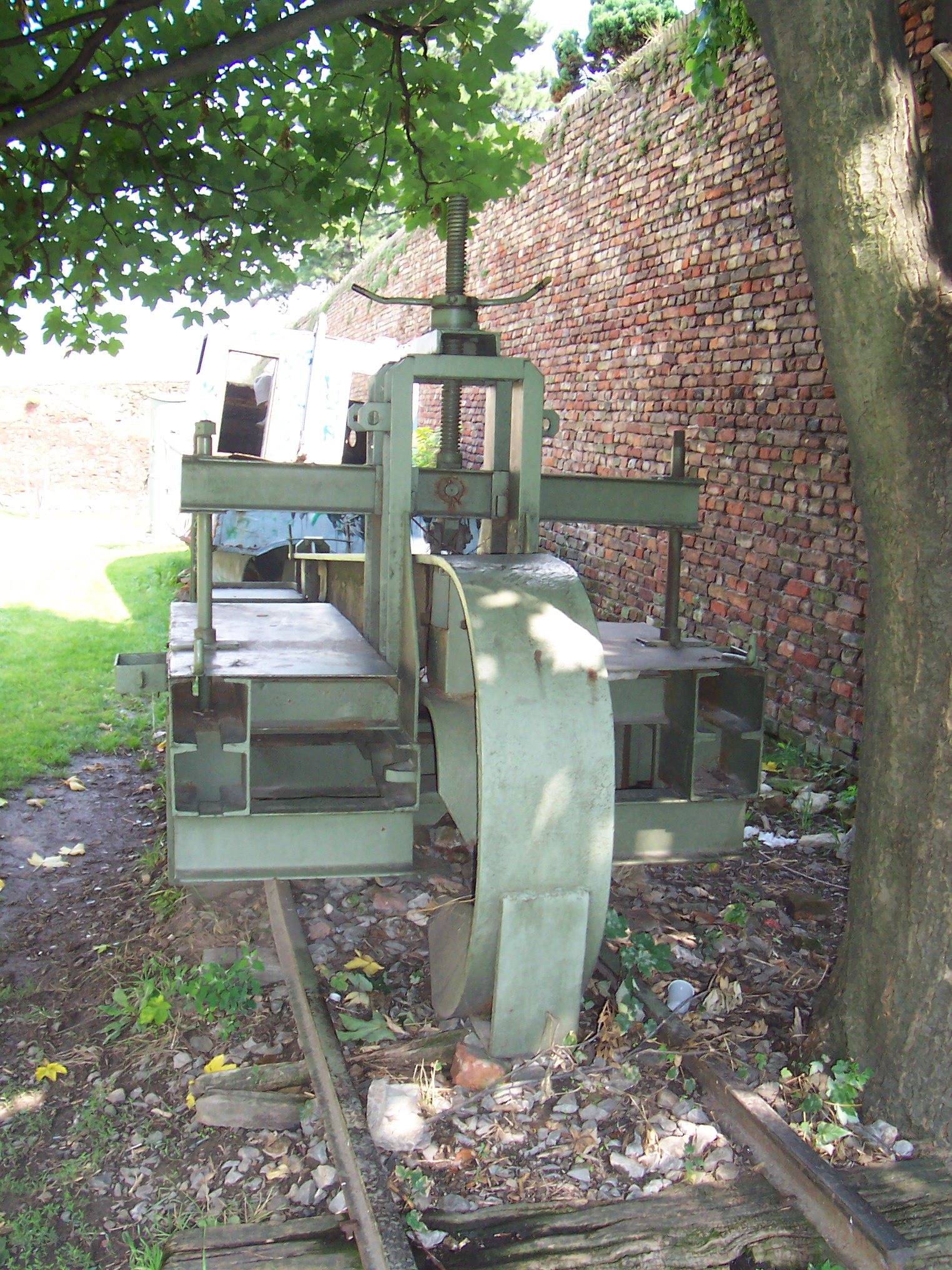 A railroad plough or Schienenwolf ('rail wolf') - (end view). Taken at the Belgrade Military Museum.